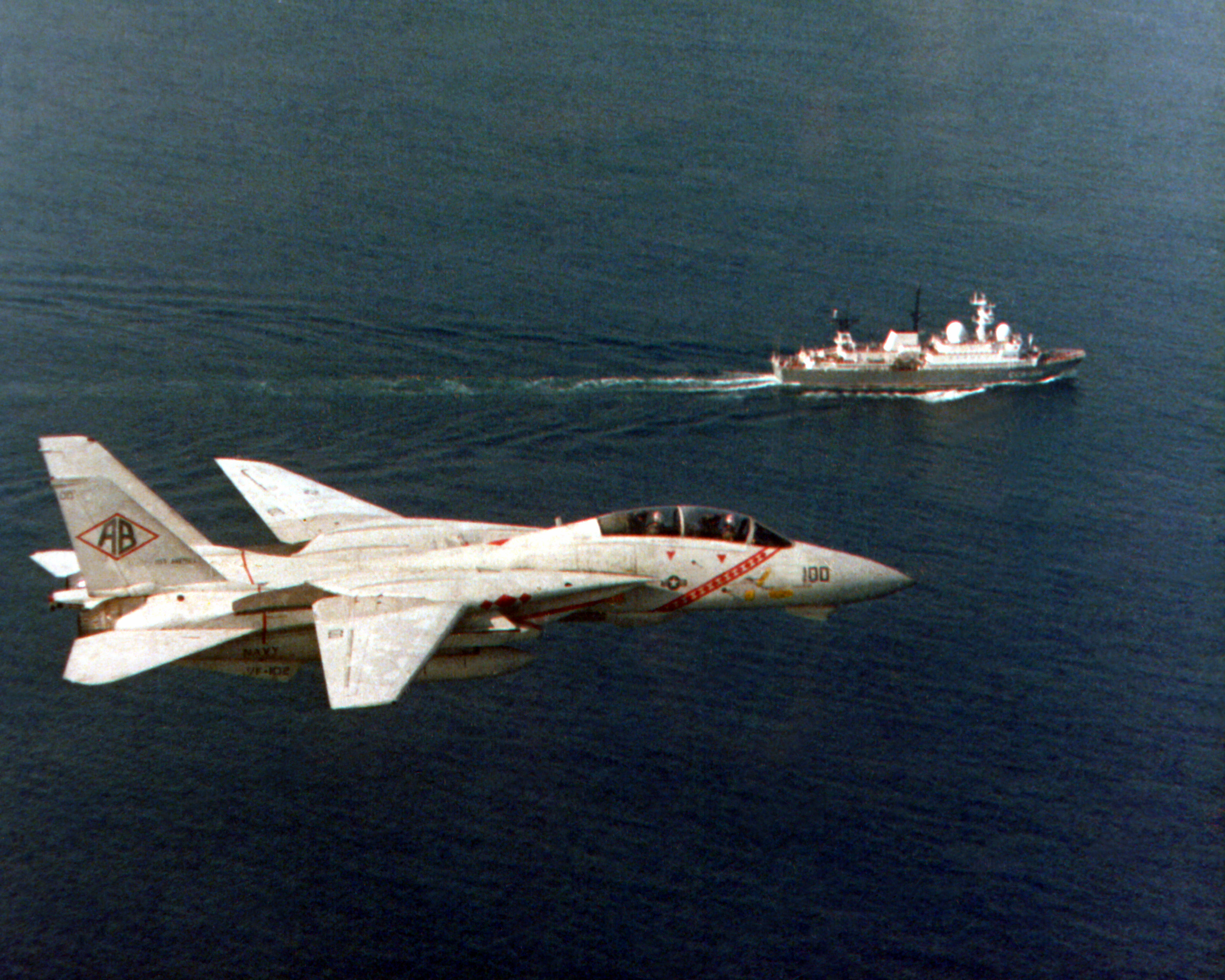 A U.S. Navy Grumman F-14A Tomcat aircraft from Fighter Squadron 102 flying over a Soviet Balzam Class intelligence collecting ship off the Virginia coast during transit across Atlantic for participation in NATO Exercise (Ocean Safari 85). The aircraft was assigned to Carrier Air Wing 1 (CVW-1) aboard the aircraft USS AMERICA (CV-66).